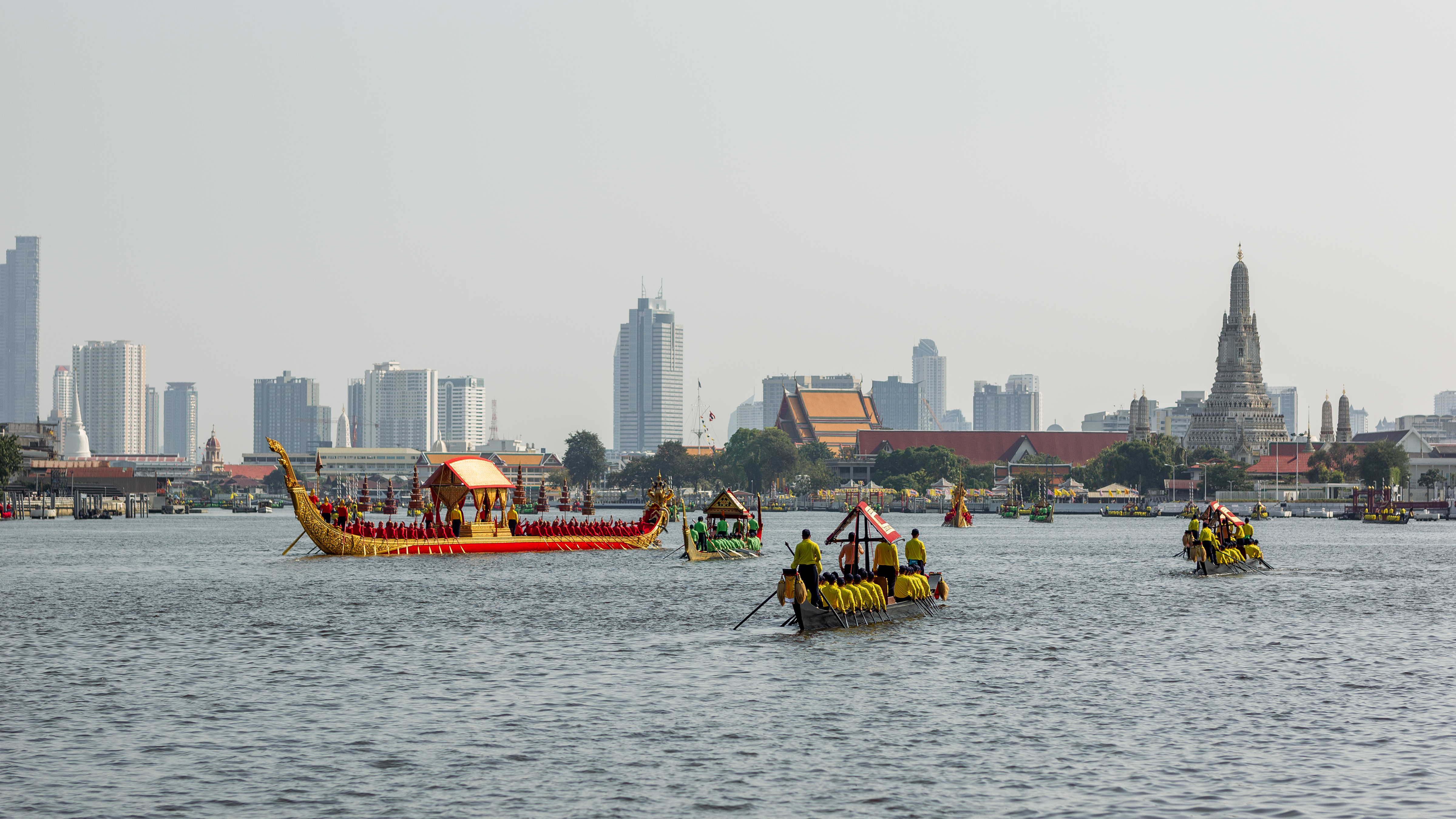 Thailand's Royal Barge Procession (Thai: กระบวนพยุหยาตราชลมารค; RTGS: krabuan phayuha yatra chonla mak) is a ceremony of both religious and royal significance which has taken place for nearly 700 years. This image was taken on rehearsal day, 9 December 2019.